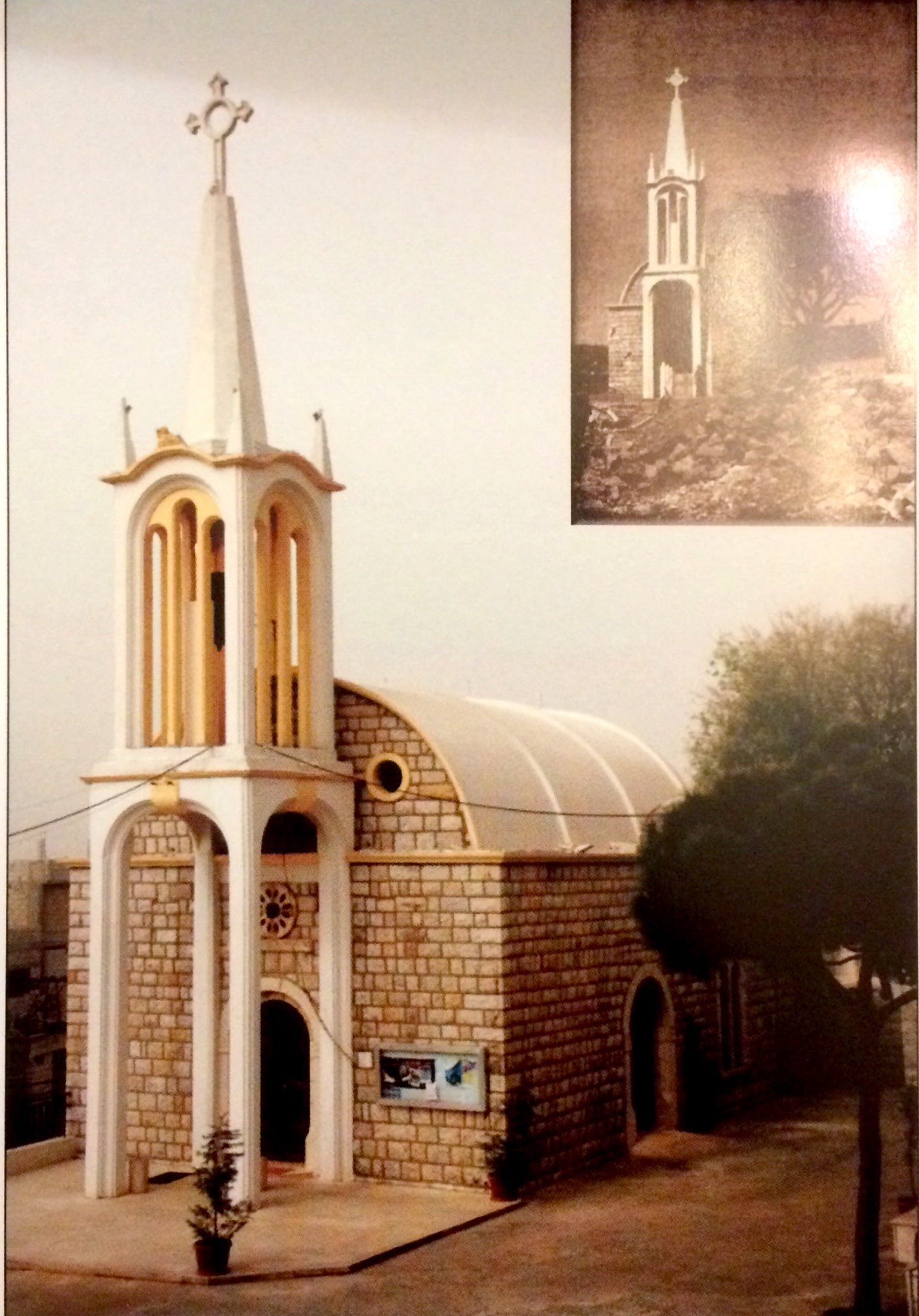 Abdo Yamine « Zakrit between yesterday and today »